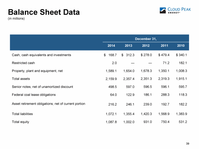 Balance Sheet Data